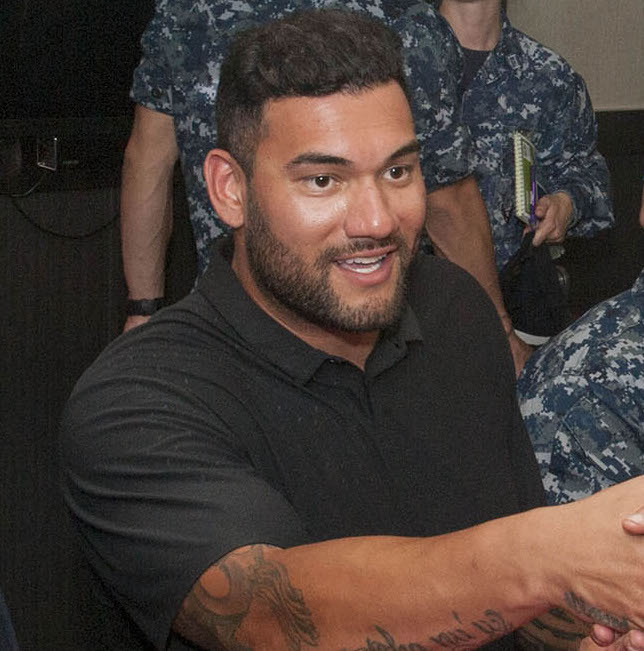 New Orleans Saints tight end, Michael Ho’omanawanui, has lunch with the amphibious assault ship USS America (LHA 6) crew on July 7, 2016.